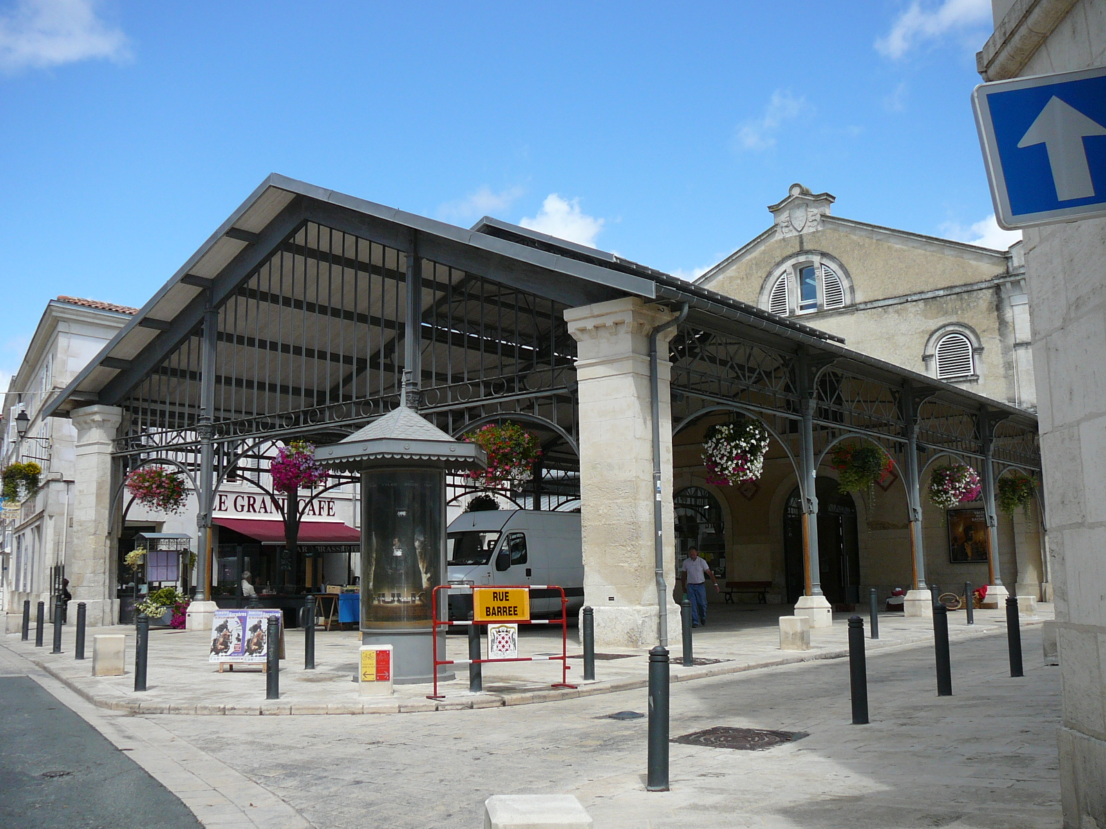 Market hall in Surgères. Charente-Maritime (17), Poitou-Charentes, France, Europe.